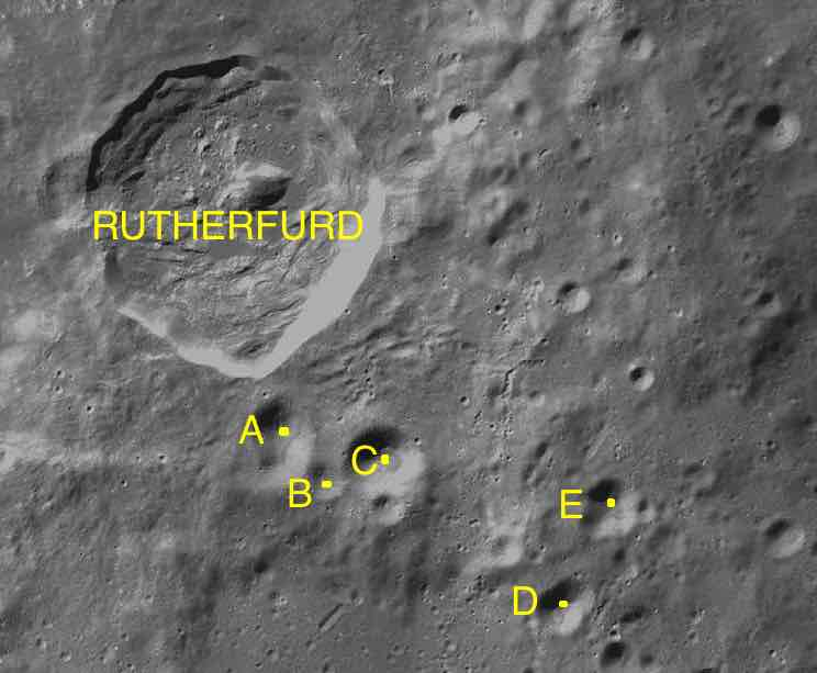 Part of the chart LAC-126 used for the presentation